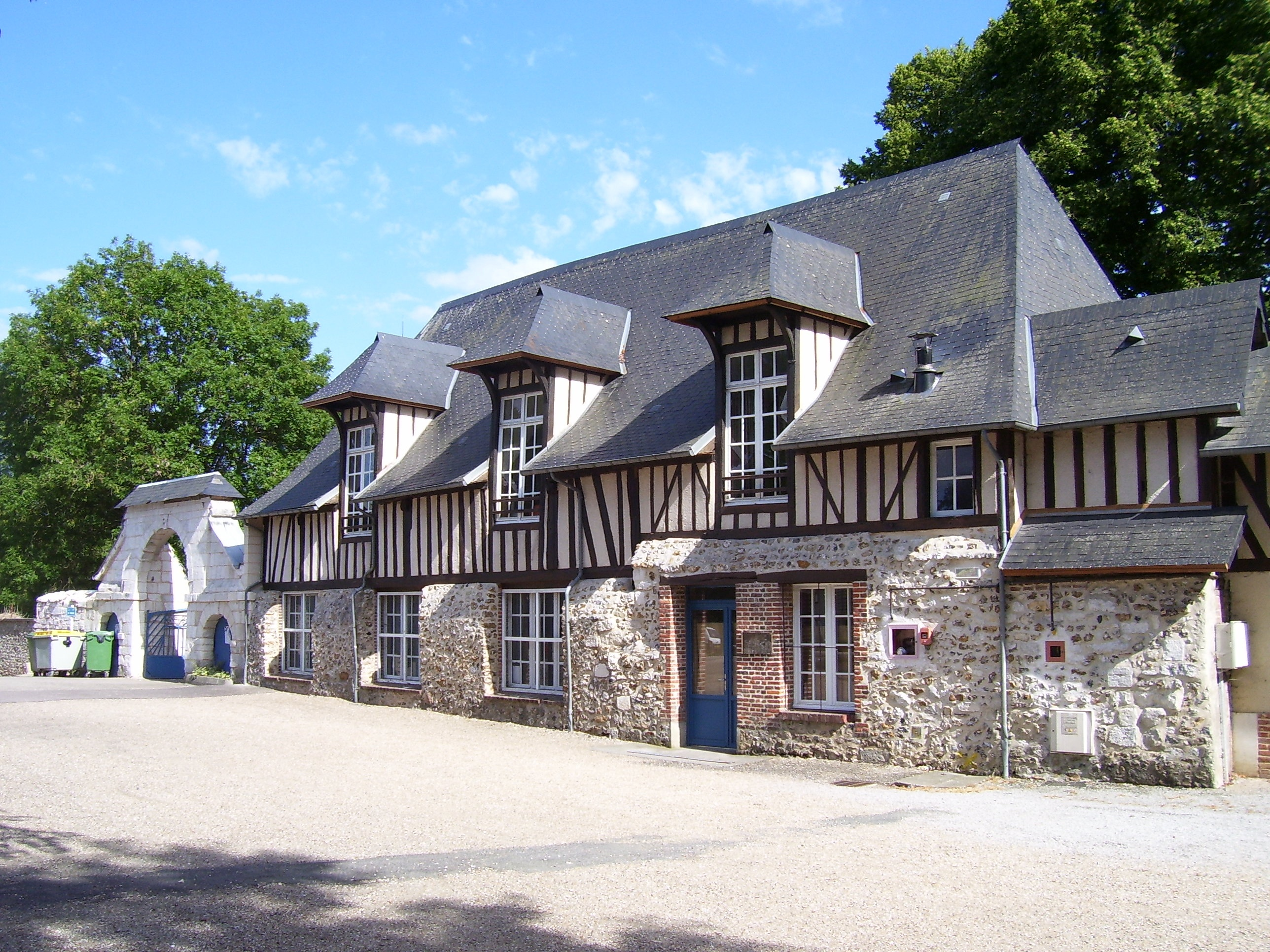 Former priory (11th century) of Saint-Philbert-sur-Risle in the département Eure in France.